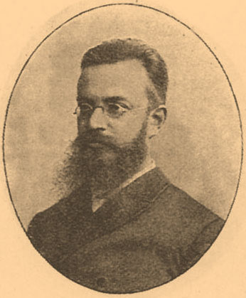 Illustration from Brockhaus and Efron Encyclopedic Dictionary (1890—1907)